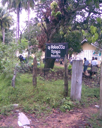 වැසීගිය මිංහෙට්ටිය පාසල